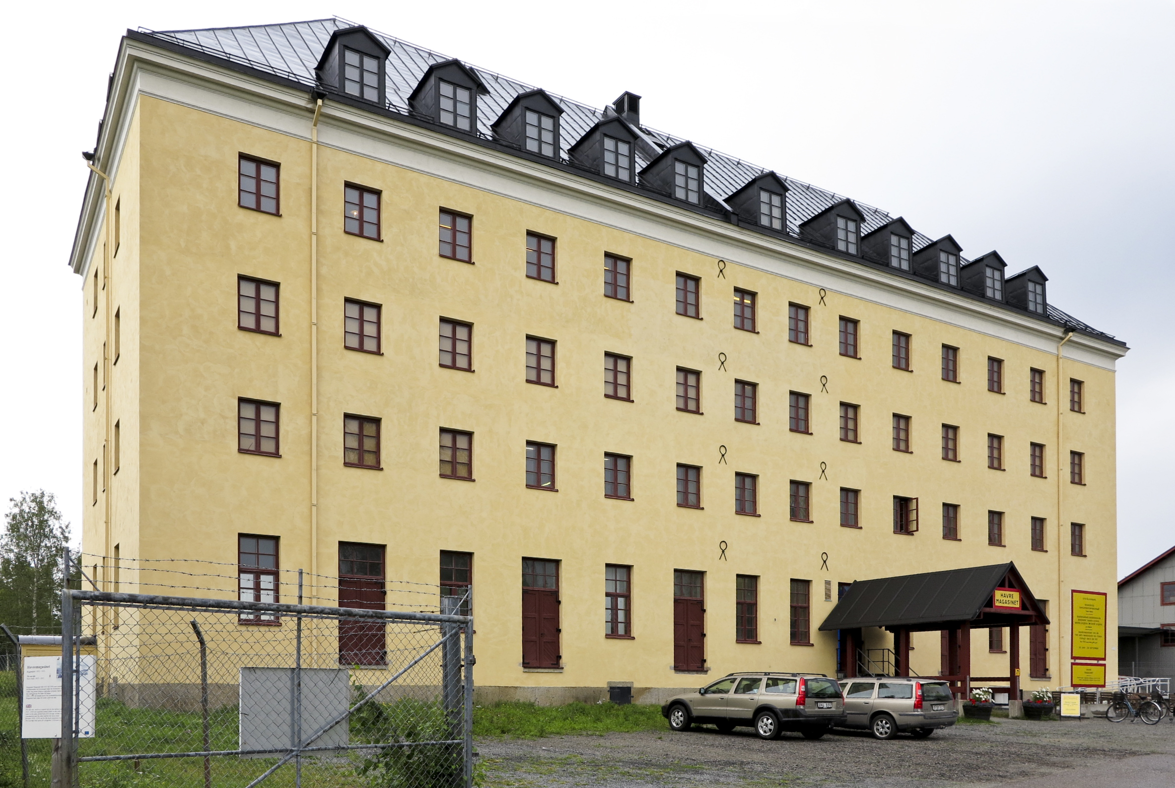 "Havremagasinet". Store-house for oats, to store food for horses and men, built 1911. Boden, Sweden.